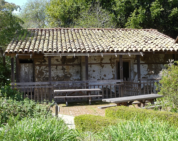 Part of an adobe farmhouse from the 1830s; one of the oldest surviving residential structures in California.